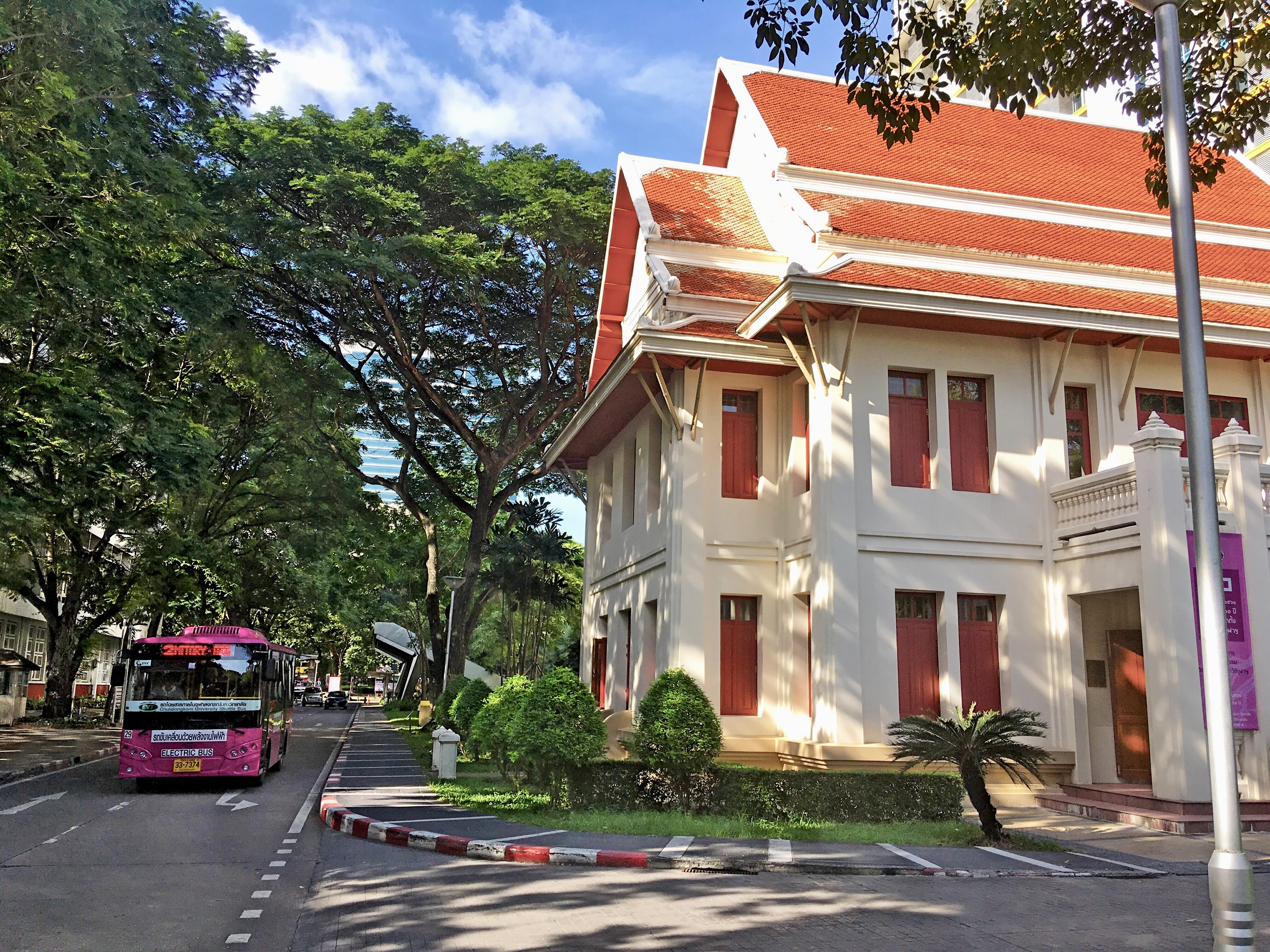 CU Shuttle Bus (CU Pop Bus) and Chulalongkorn University Memorial Hall